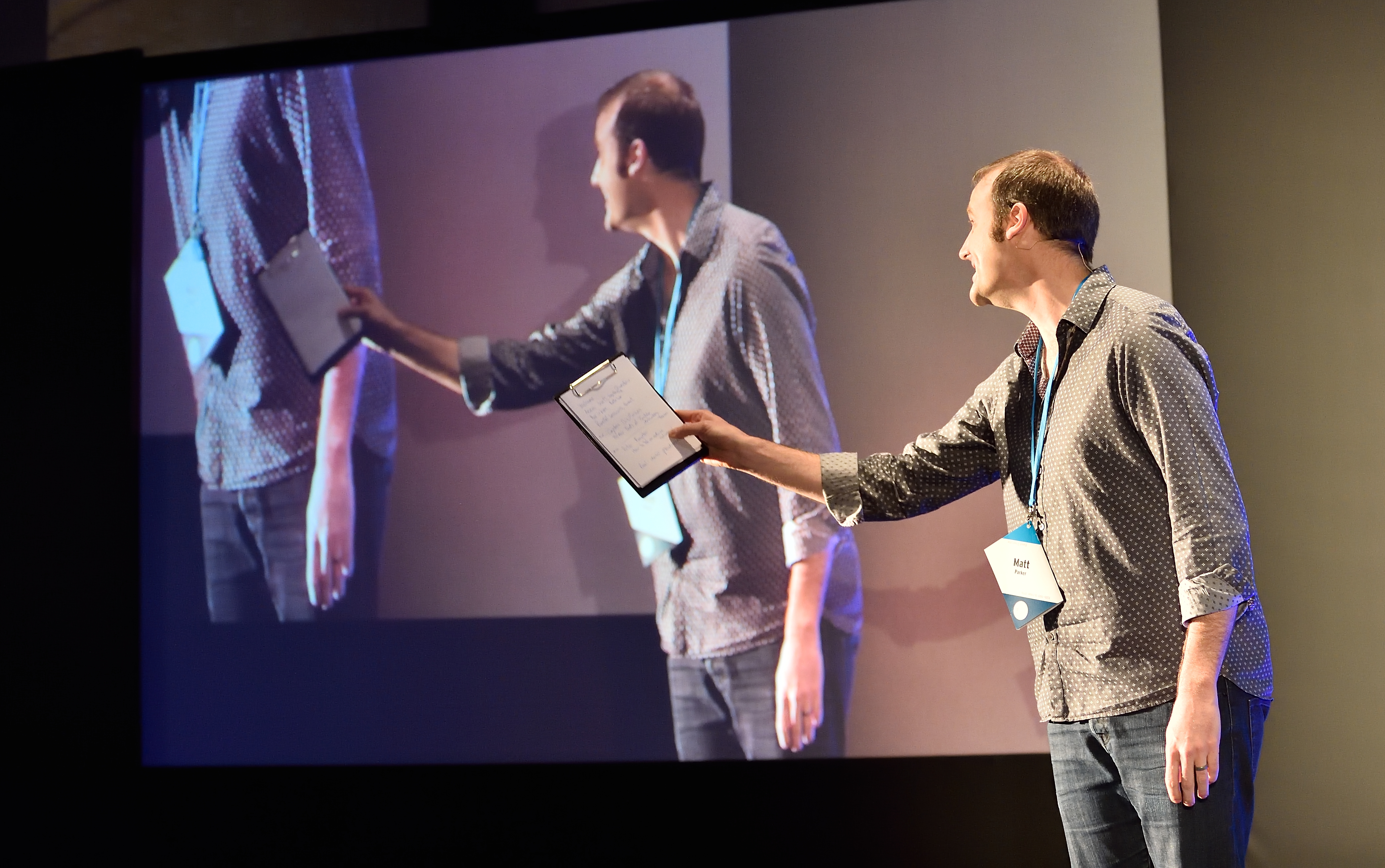 Matt Parker, at QED 2016